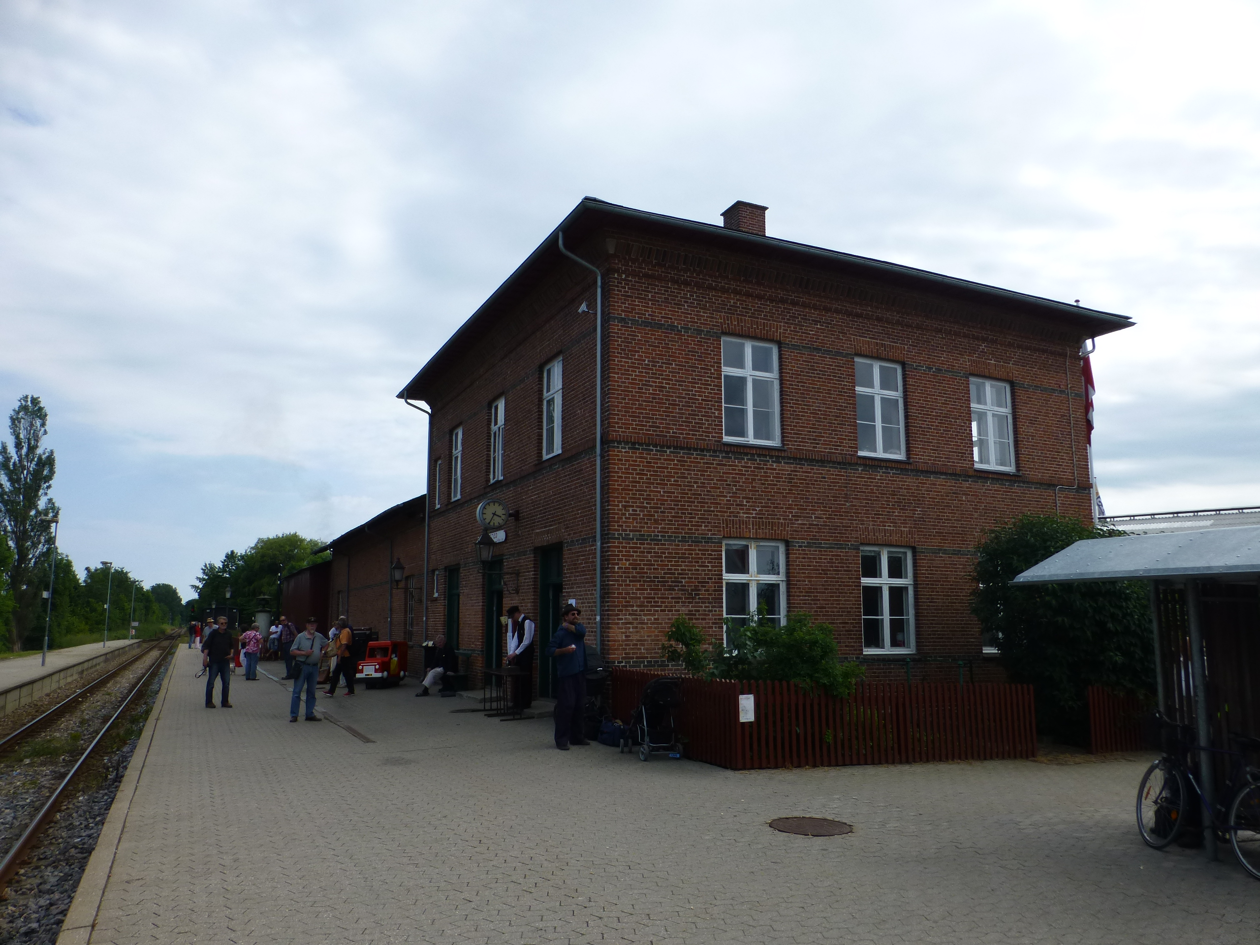 Græsted Station on Gribskovbanen between Hillerød and Gilleleje in Denmark.